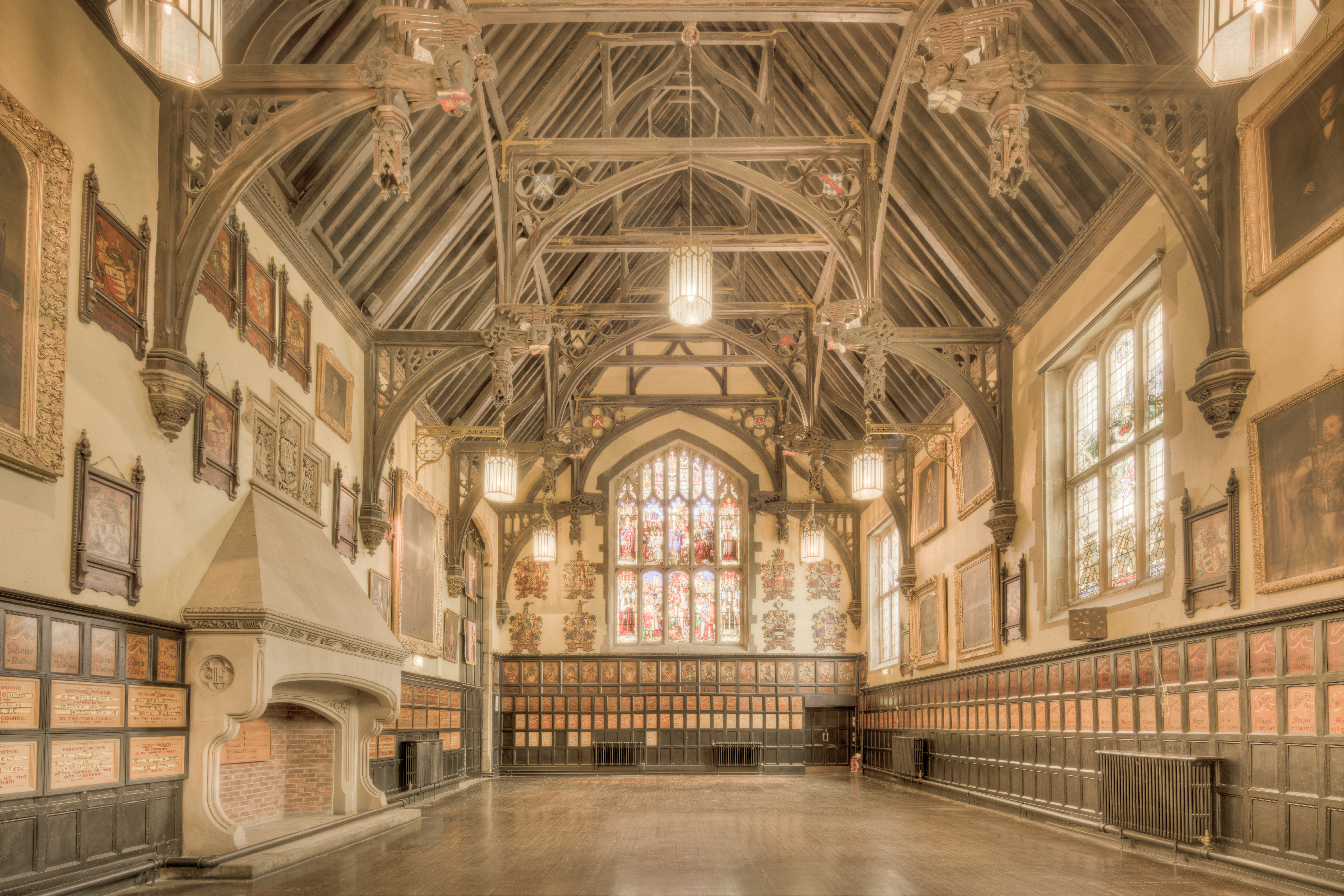 Here is a photograph taken from The Great Hall inside Durham Town Hall. Located in Durham, County Durham, England, UK. (Taken with kind permission of the administration).